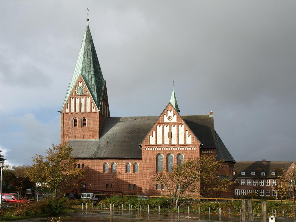 Westerland (Sylt), Slesvic-Holstein (Germany): church St. Nicolai, photo 2008